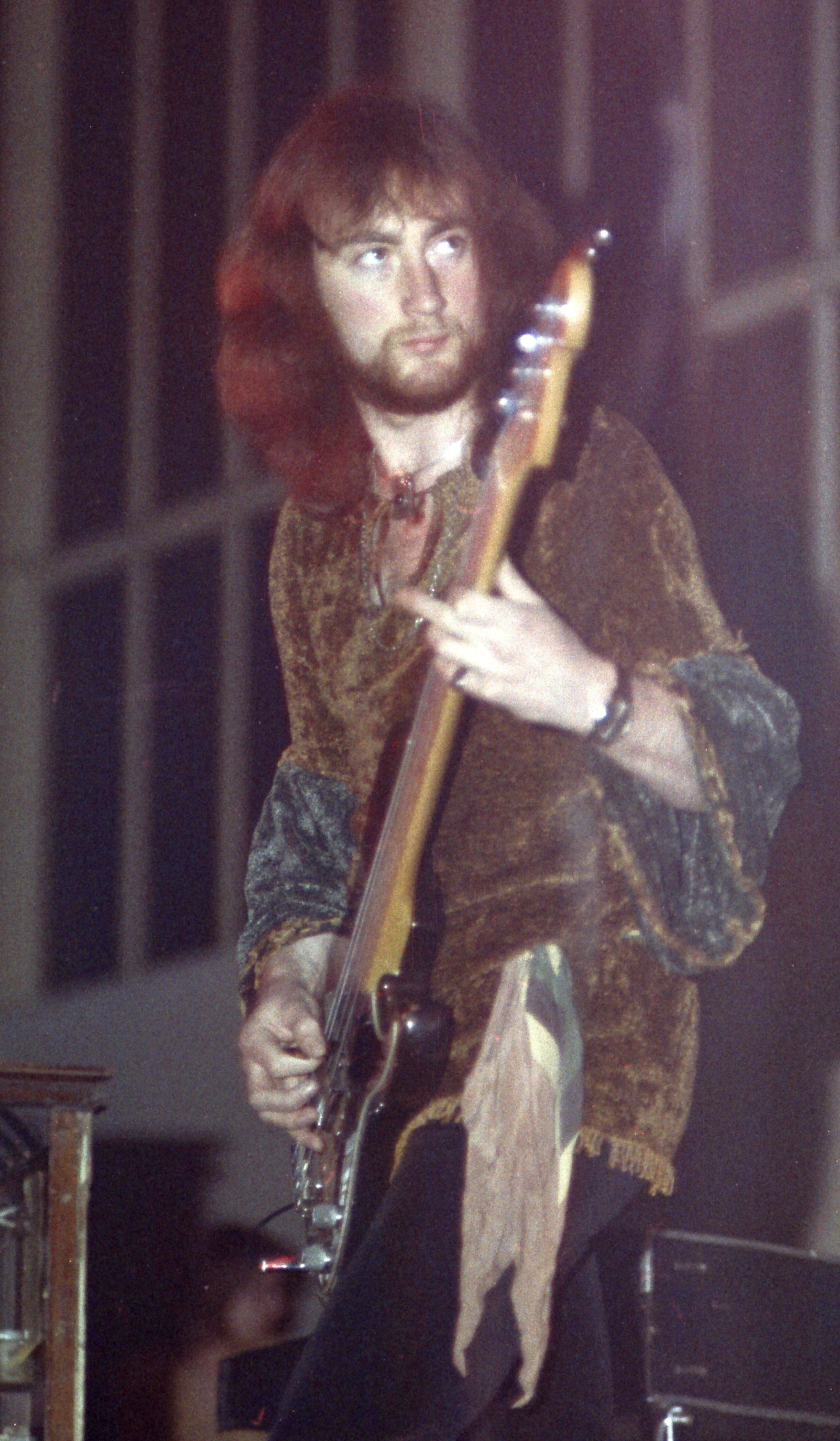 Hamburg